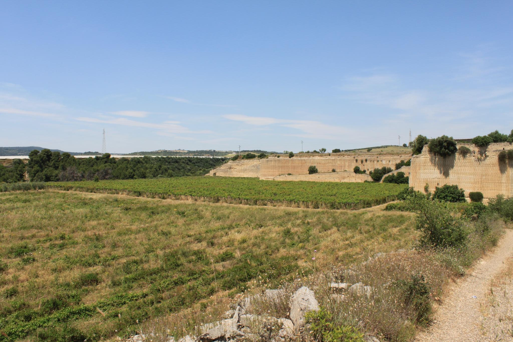 An organic vineyard around the town of Castellaneta in the Italian wine region of Puglia/Apulia